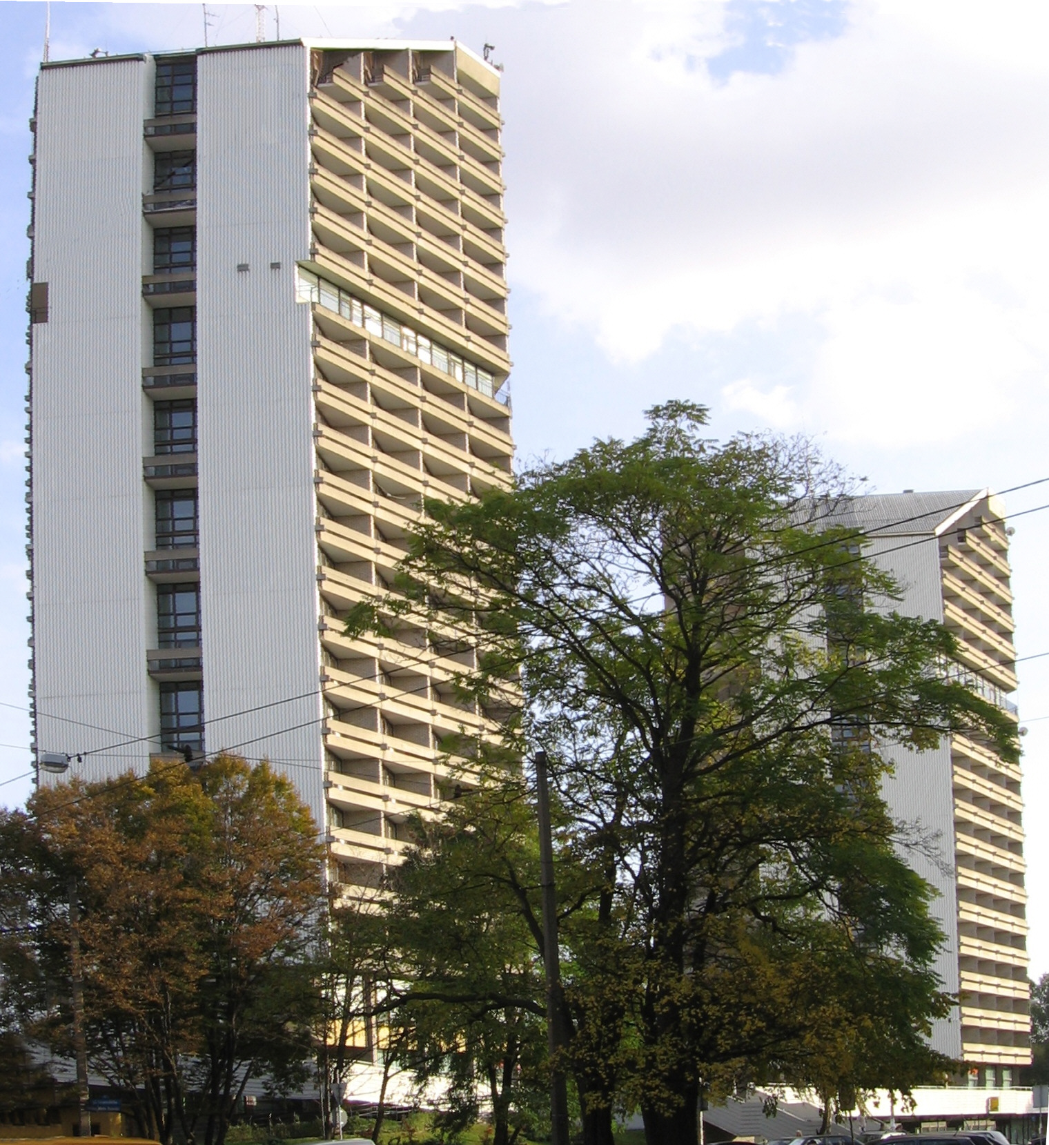 Wrocław, Poland: academic hostels of University of Wrocław - "Pencil" and "Crayon" ("Ołówek" & "Kredka"), "Crayon" in foreground